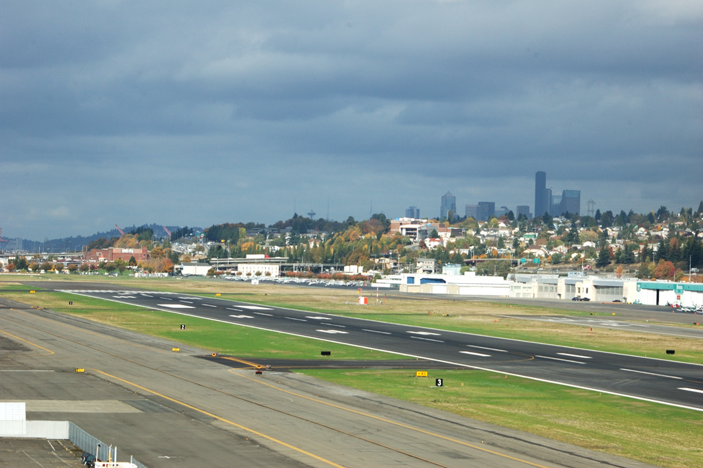 A view of Boeing Field looking North from the Control Tower.